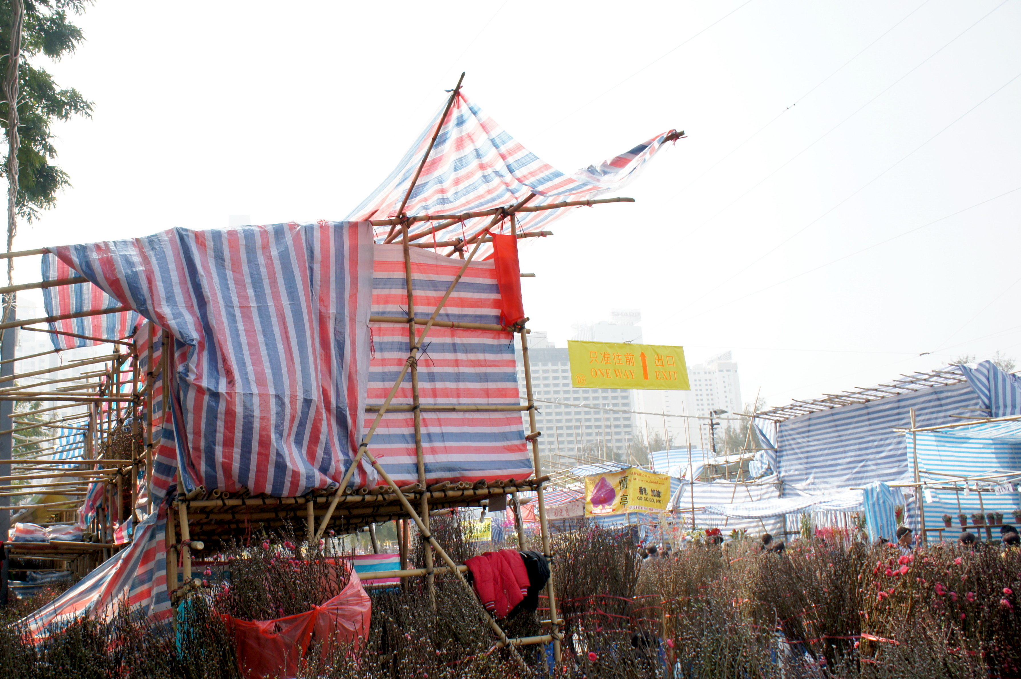 A flower booth at the Chinese New Year Bazaar, Victoria Park, Hong Kong.